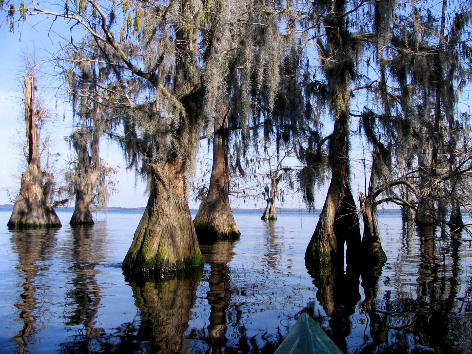 Lake Louisa, Clermont, Florida. Taken by User:Mwanner, 18 Feb, 2006.